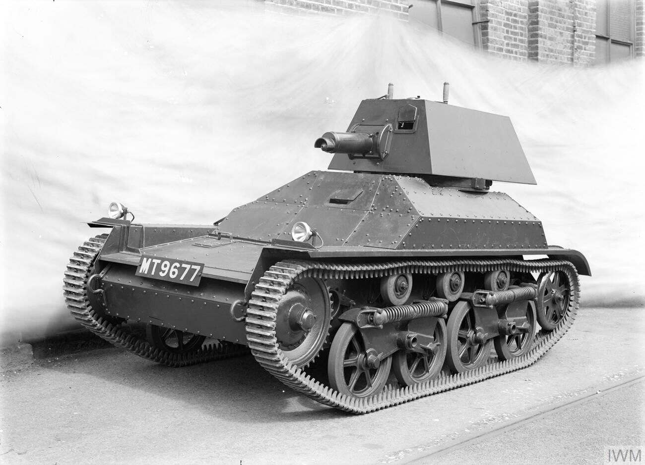 Vickers Light Tank Mk II (A4E13 - A4E15).